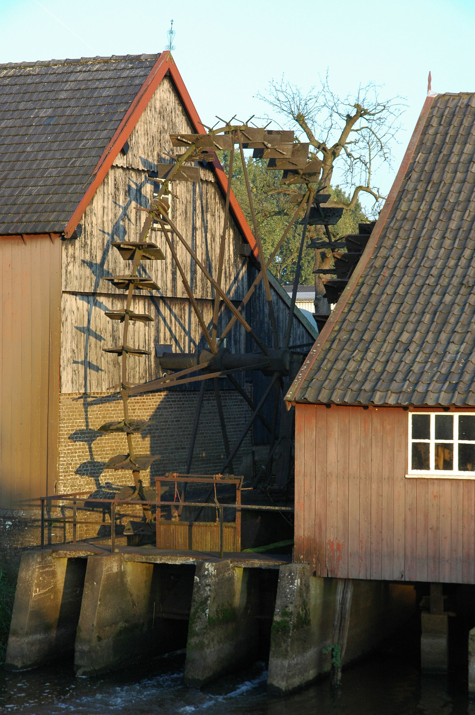 Waterwheels of the watermill in Opwetten, Nuenen, The Netherlands